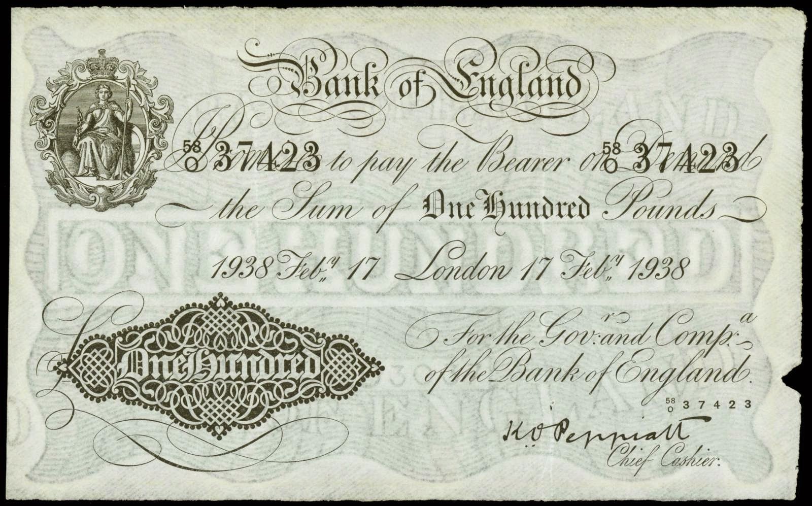 Observe side of the 1938 series of one hundred pounds